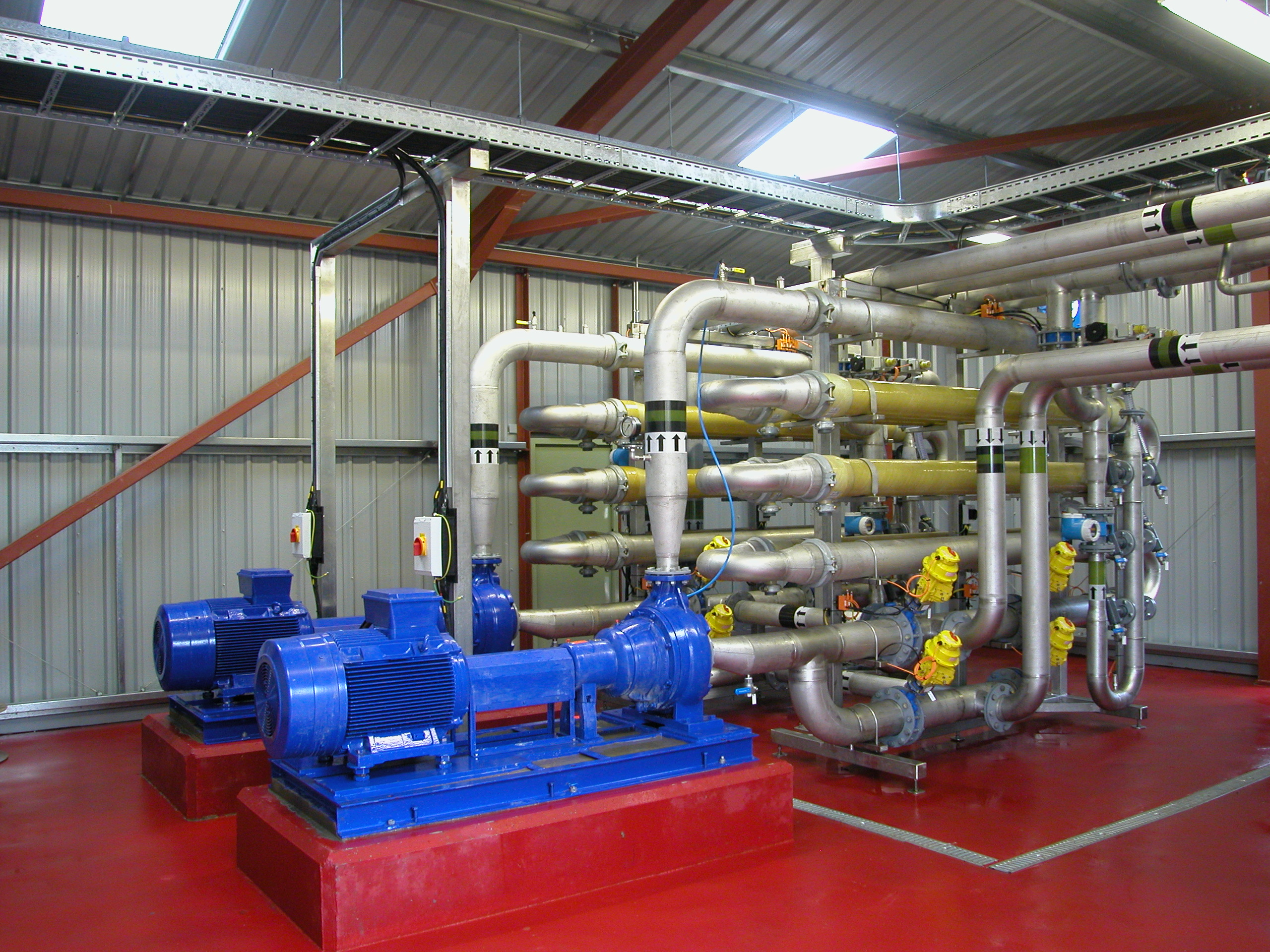 Ultrafiltration membrane system used on an activated sludge wastewater treatment plant, installed by Aquabio Ltd.